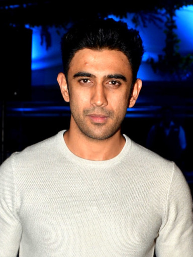 Sadh at the launch of Manasi Scott's album 'Manasi - The Ideal Woman'